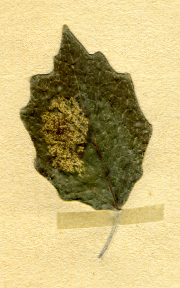 Leaf-mark Coll. Dr. Martin Hering. Host plant: Populus alba (Salicaceae) - Parasite: Lithocolletis chiclanella (Gracillariidae) – Location: Torre del Mar, Malaga, IV.1933, leg. Hering, det. Hering, being processed by Gisela Schadewaldt.